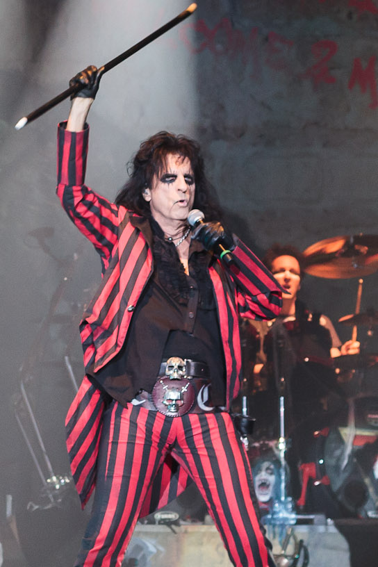 Alice Cooper performing live during Halloween Night of Horror at London Wembley Arena on 28 October 2012